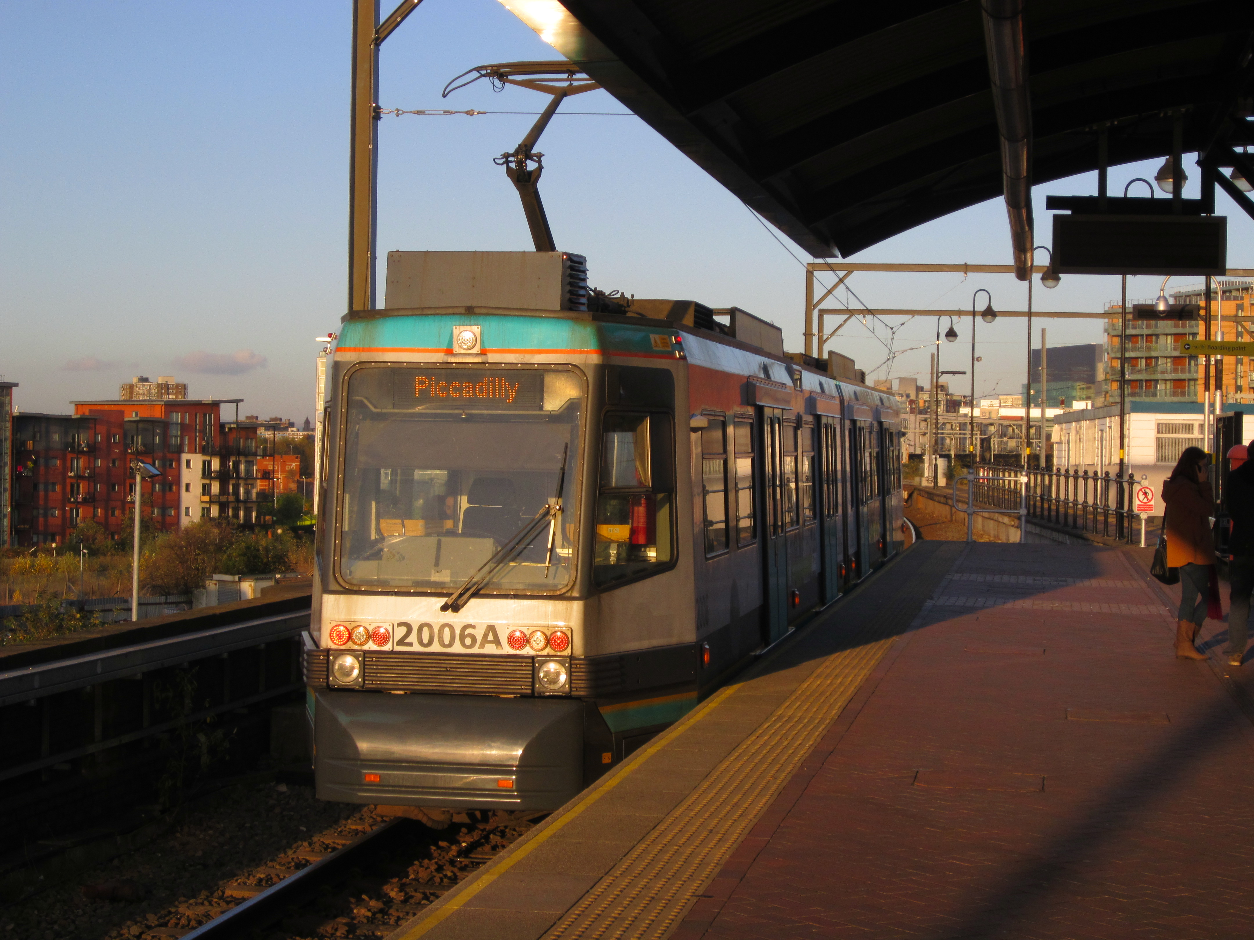 Photo taken at Cornbrook Metrolink station, Greater Manchester, England.